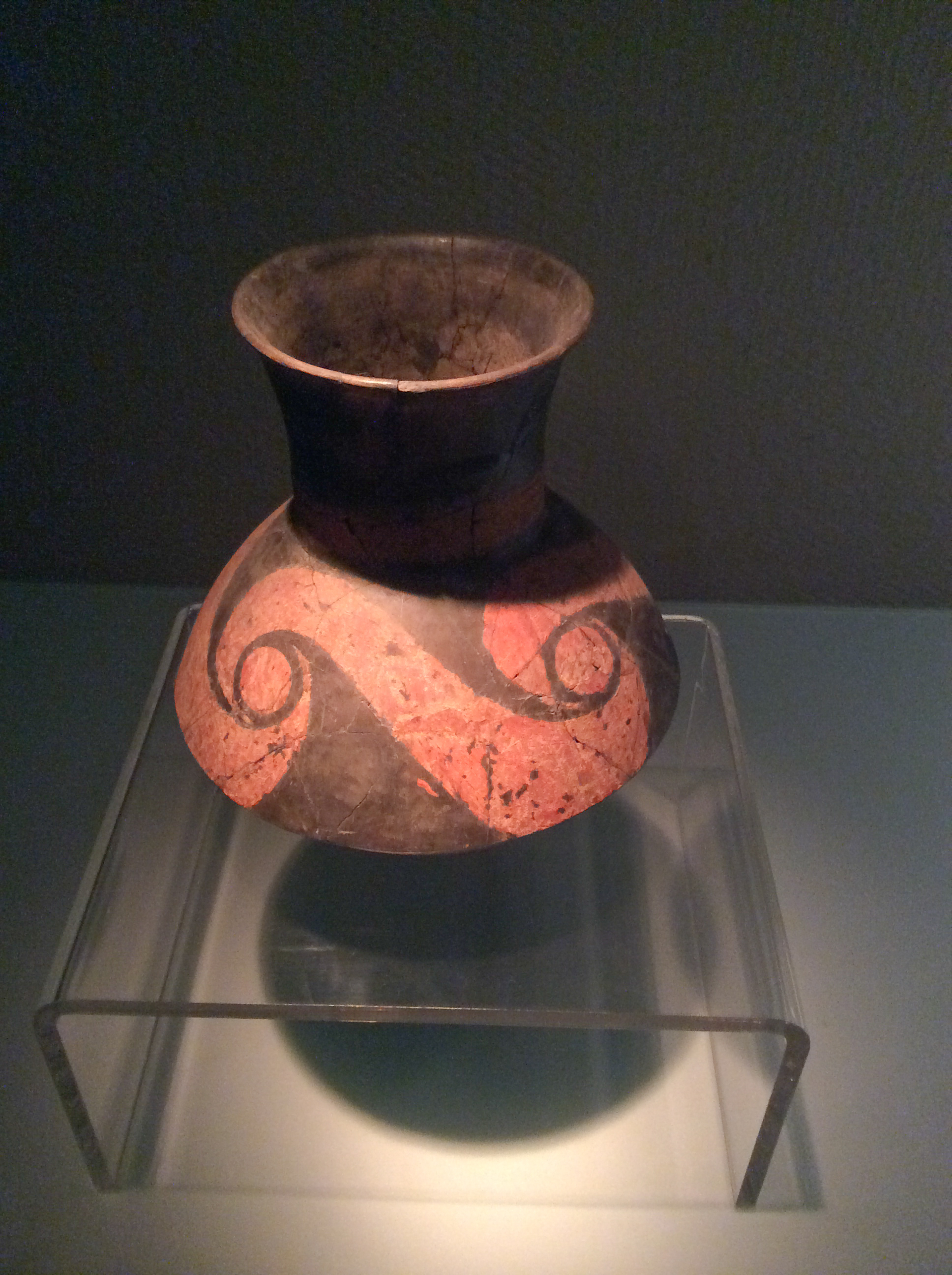 A painted pottery jar Neolithic age (about 2500 year BC) Excavated from Taosi village, Xiangfen County, Shanxi Province